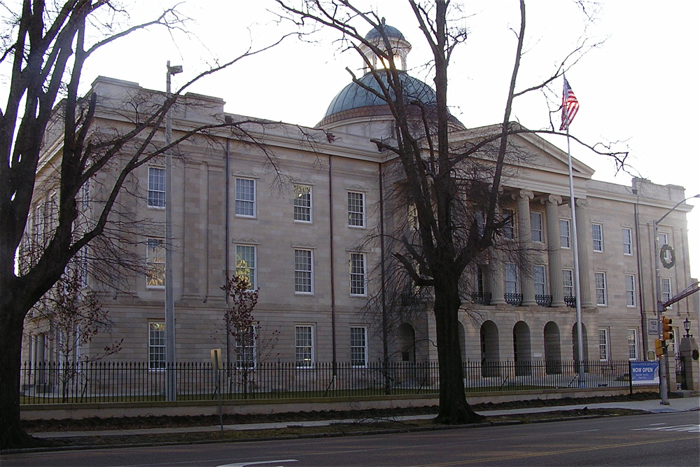 Mississippi Old Capitol; Jackson, Mississippi; December 2009